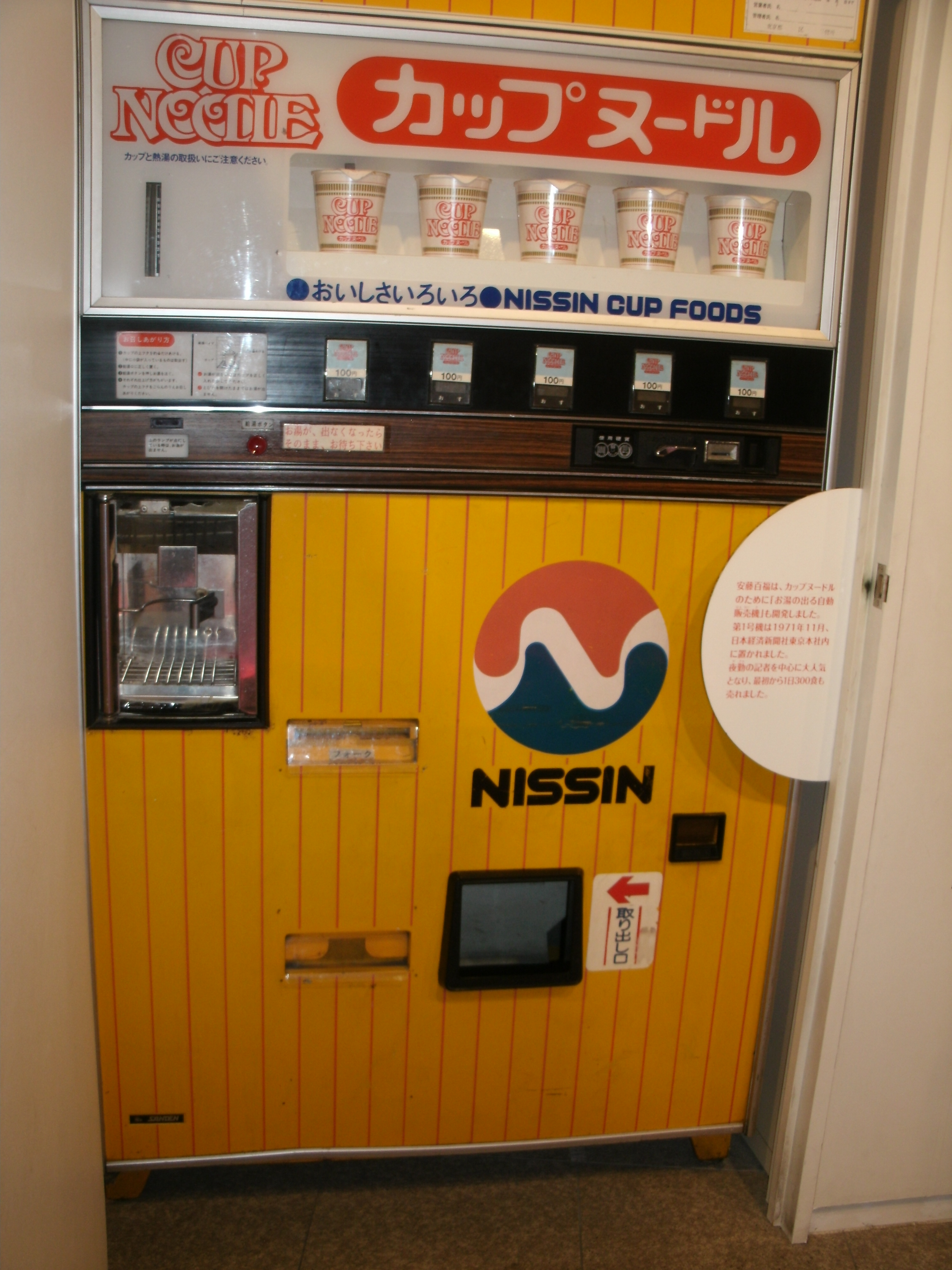 CupNoodle Vender